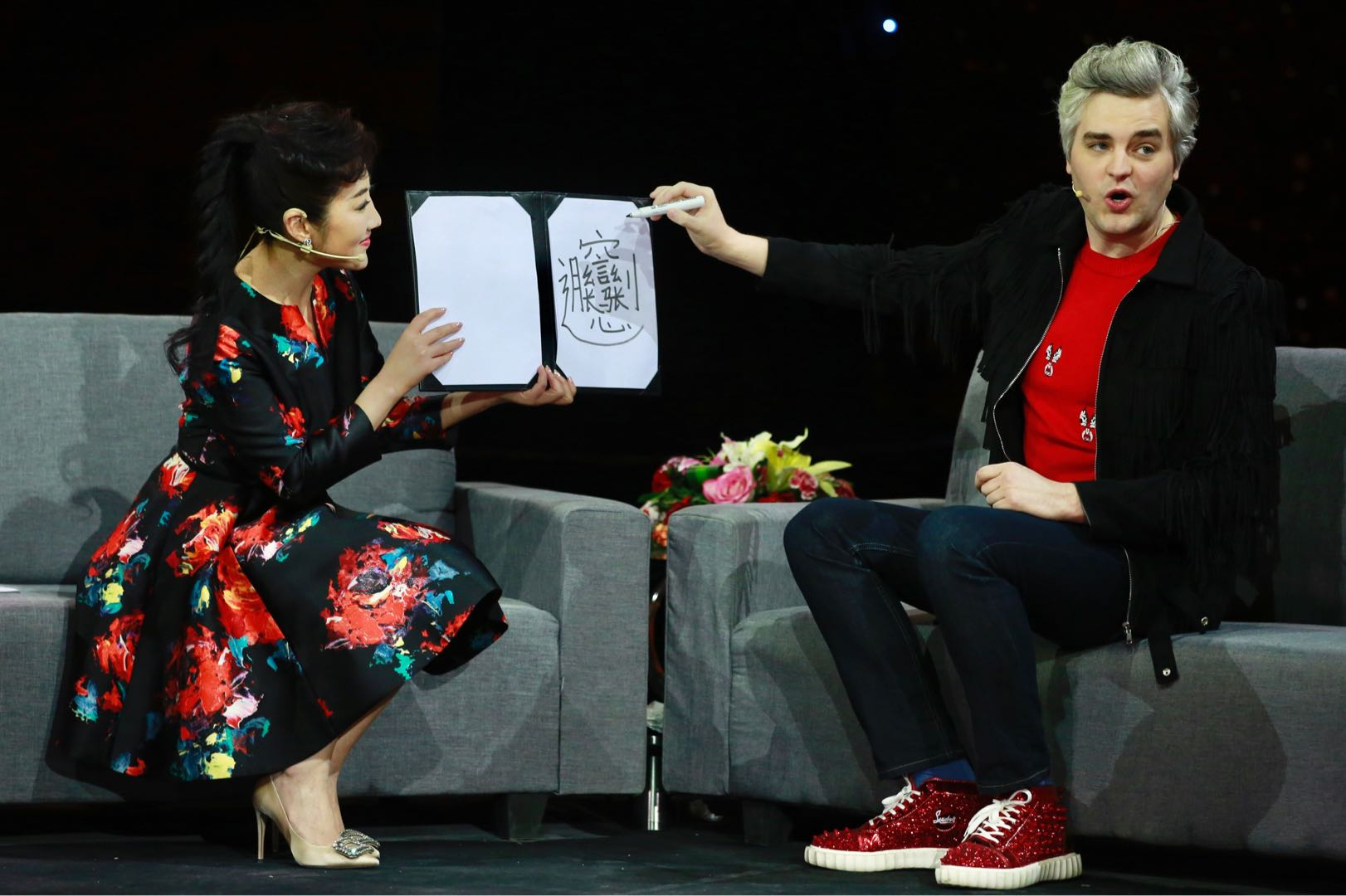 Slater Rhea (帅德) explaining a "biang" character he just wrote on Xi'an TV to host 孙维 and the studio audience.